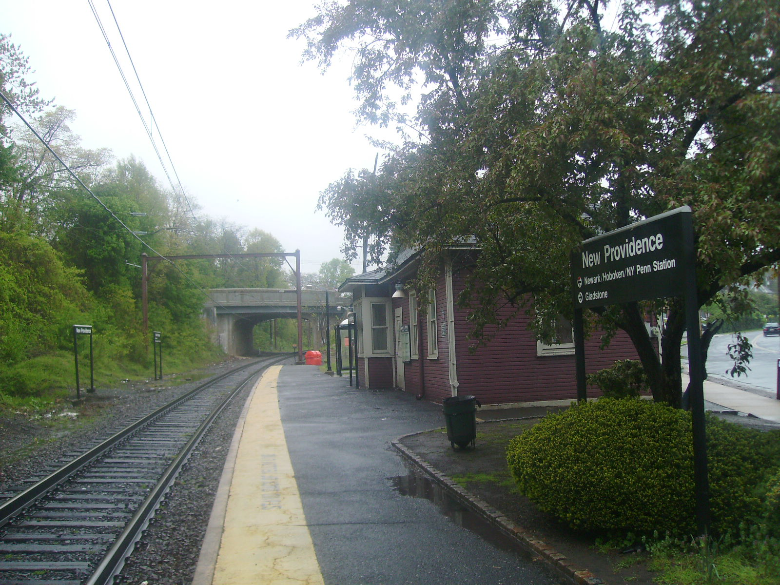 Facing eastbound along the Gladstone Branch at the New Providence New Jersey Transit station in New Providence, New Jersey. The station just completed restoration nine days prior to this photo being taken.